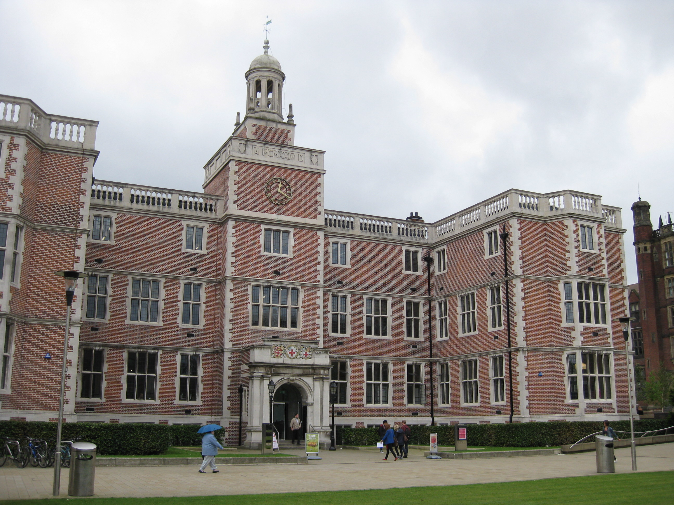 Newcastle Student Union Building after cleaning 2012